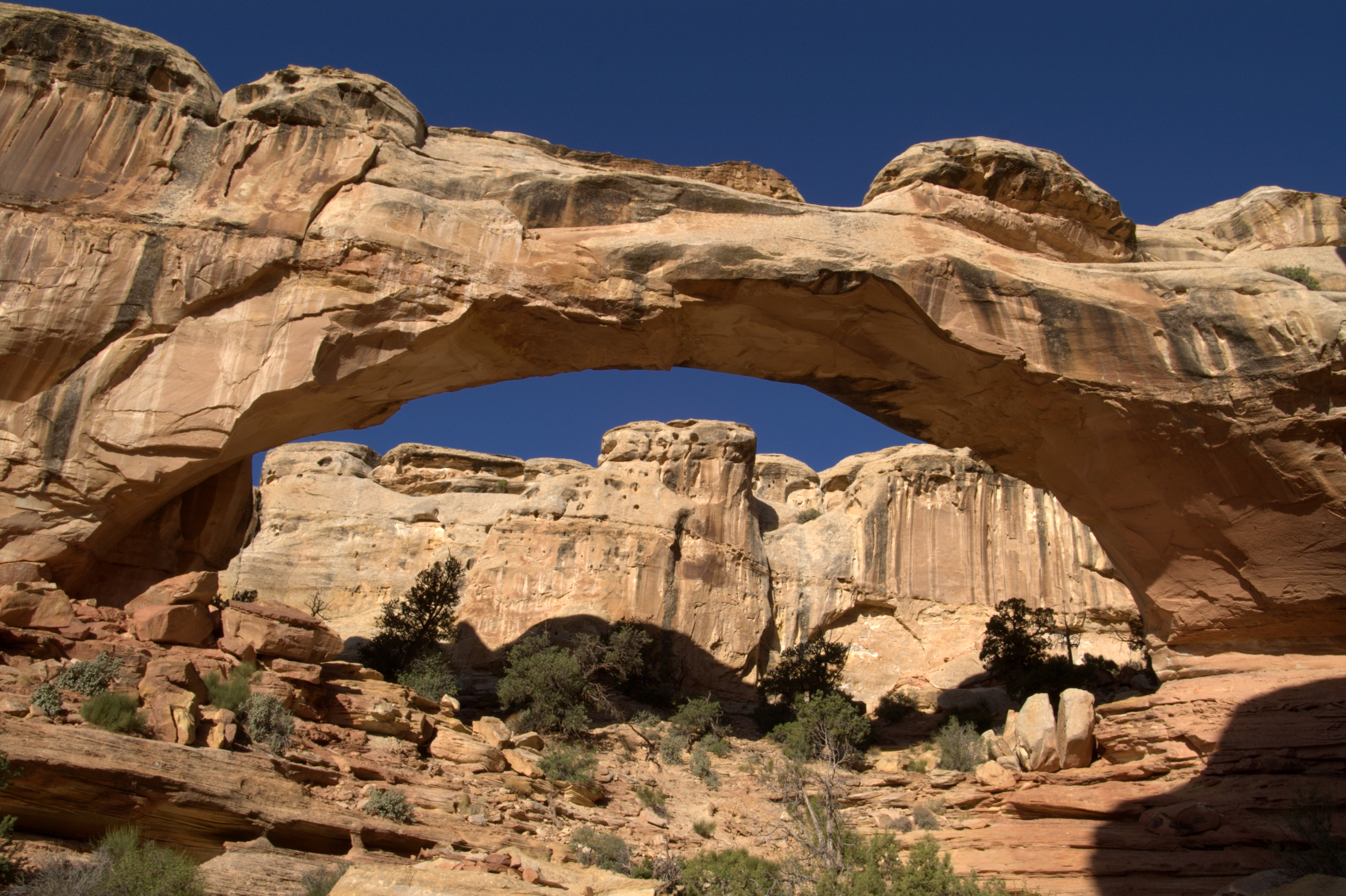 Photo of Hickman Bridge in Capitol Reef National Park, USA